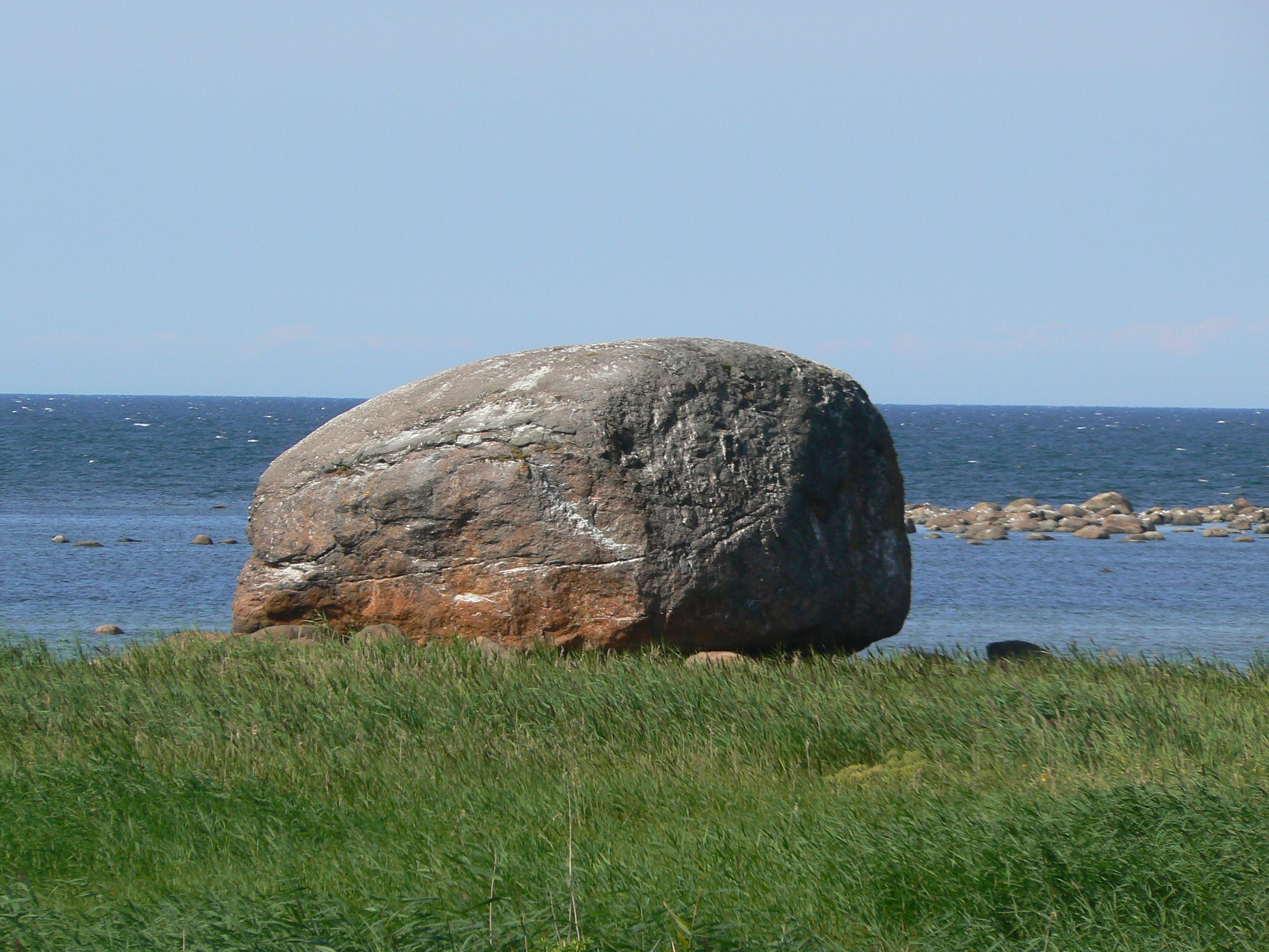 Letipea hiidrahn (glacial erratic) in Estonia